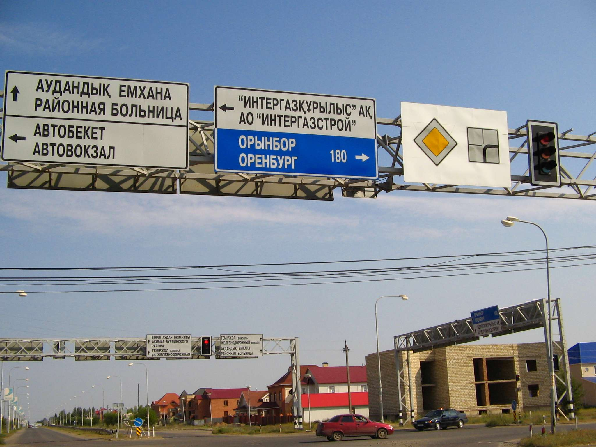 Aksay city (Western Kazakhstan) road signs